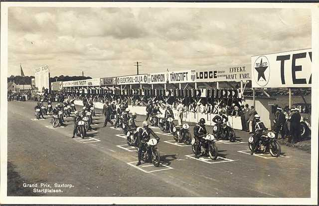 Postcard Saxtorp Grand Prix, Sweden 1937 (or 1939)